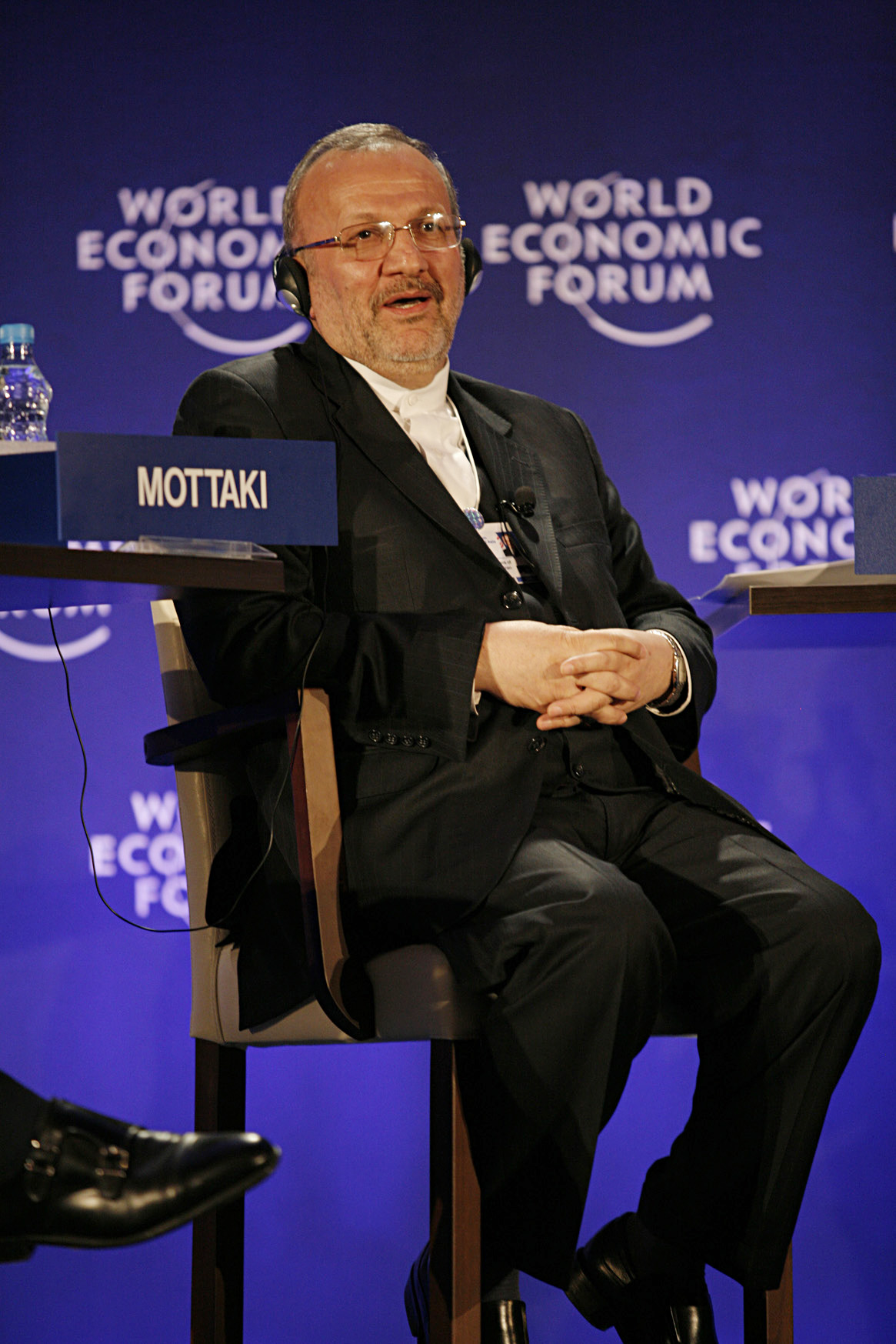 ISTANBUL/TURKEY, 31OCT08 - Manouchehr Mottaki, Minister of Foreign Affairs of the Islamic Republic of Iran speaking at the World Economic Forum on Europe and Central Asia in Istanbul, 30 October - 1 November 2008. Copyright World Economic Forum ( by Serkan Eldeleklioglu-Bora Omerogullari-Ozan Atasoy